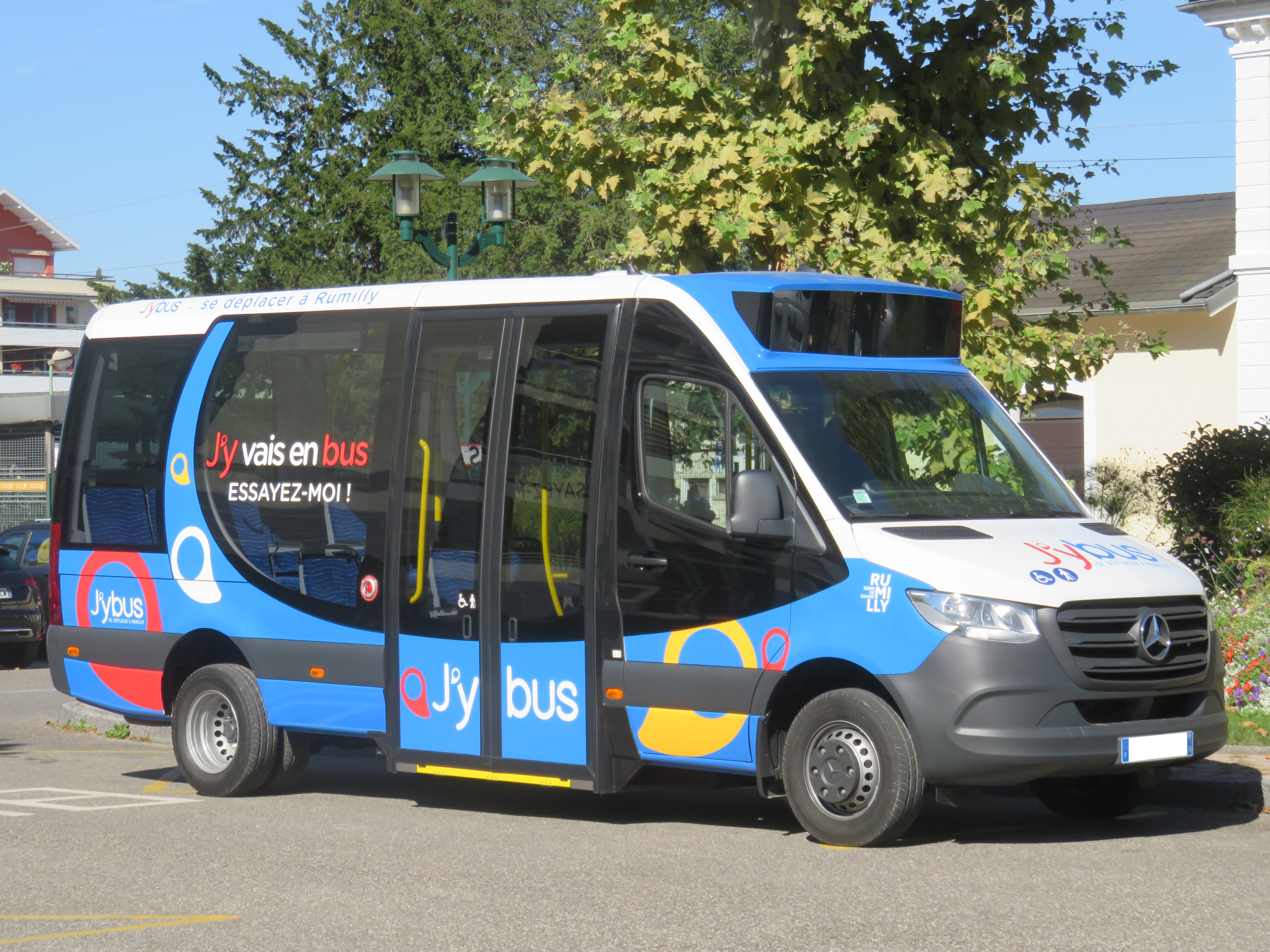 A Dietrich City 29 (n°2 of the French agglomeration community Rumilly Terre de Savoie) parked in front of the train station (Rumilly, France) on September 13, 2019.